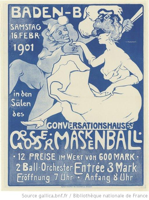 Maskball promotional poster by Ivo Puhonny